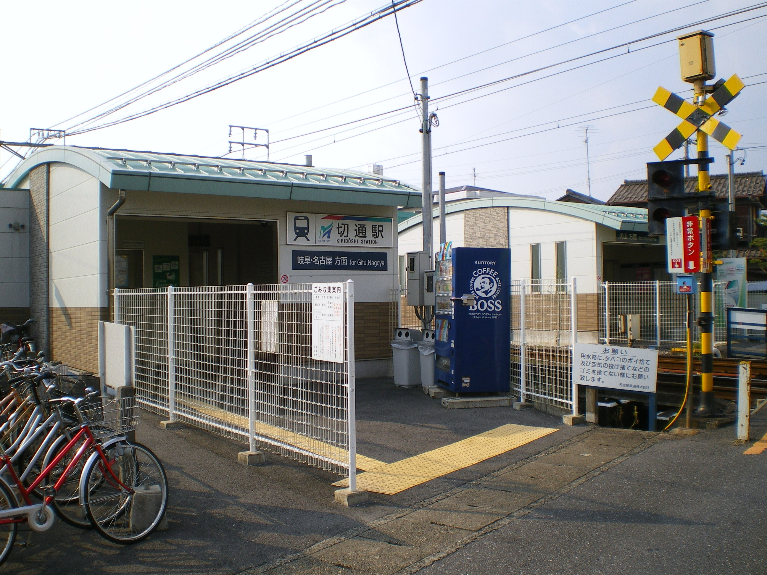 Nagoya Railroad Kakamigahara Line Kiridōshi Station Building